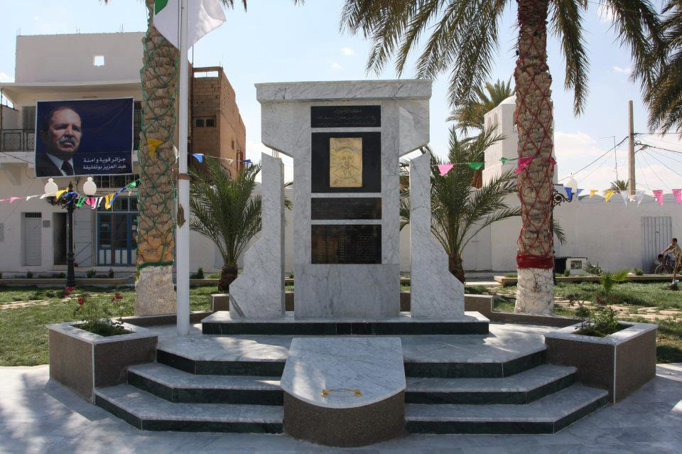 ساحة الثورة